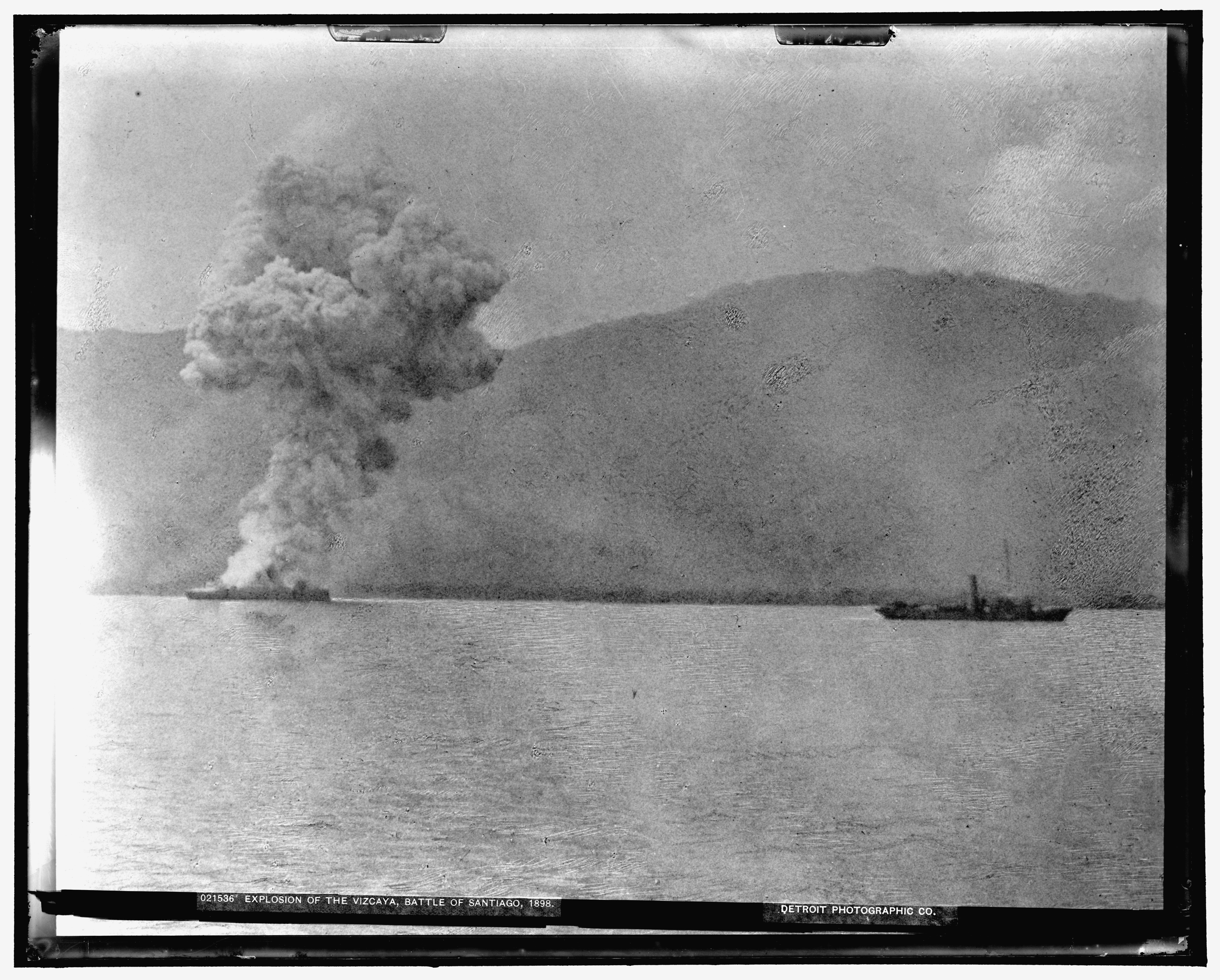 The Spanish armoured cruiser Vizcaya explodes at the Battle of Santiago de Cuba on July 3, 1898 during the Spanish-American War.